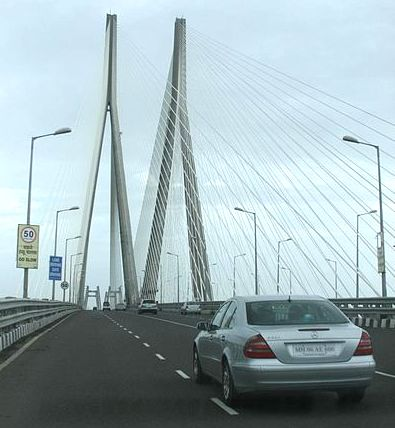 Close up look of Cable Stay Bridge, Mumbai